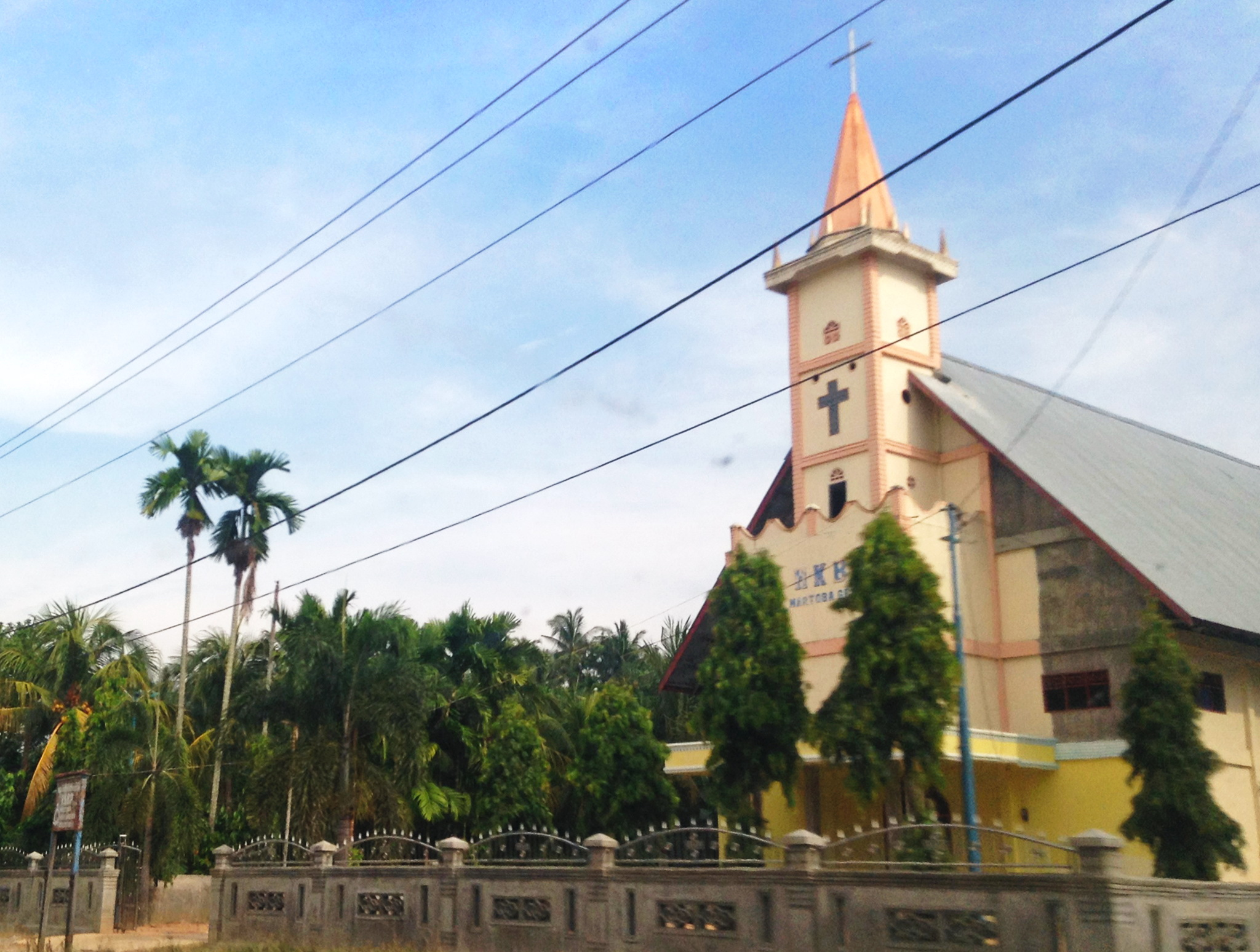 HKBP Martoba Gebang, Church in Pangkalan Brandan, Babalan, Langkat